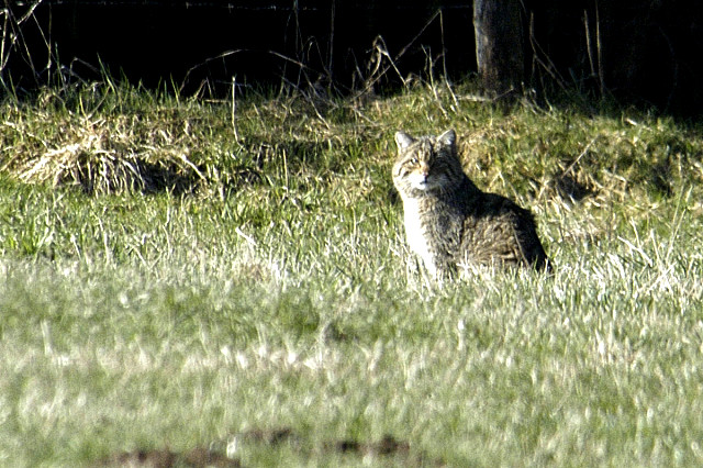 Felis silvestris from Commanster, Belgian High Ardennes (50°15′20″N,5°59′58″E).